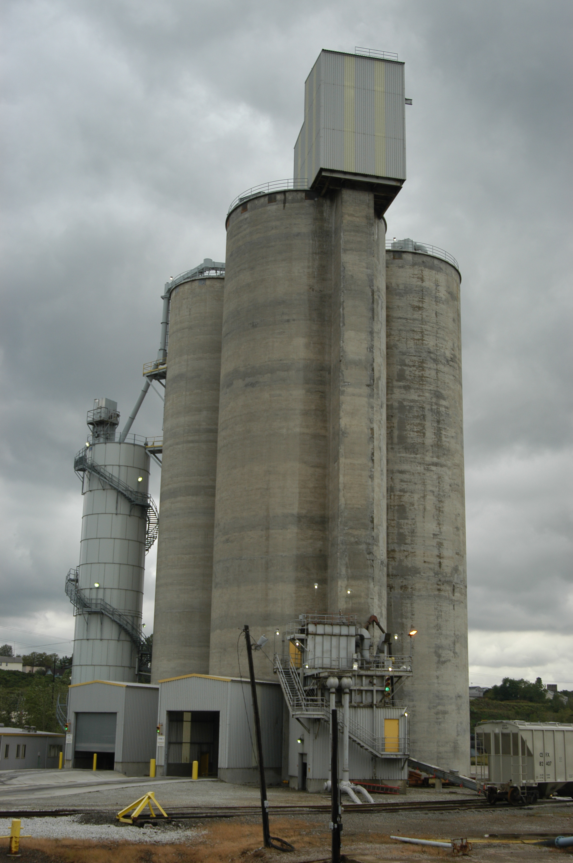 A silo in Cleveland, Ohio.